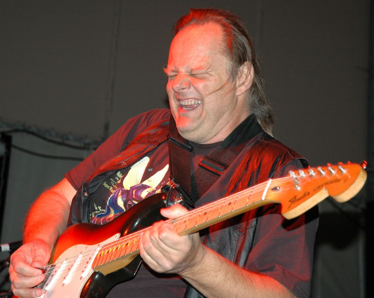 Walter Trout at the 2007 Riverwalk Blues Festival